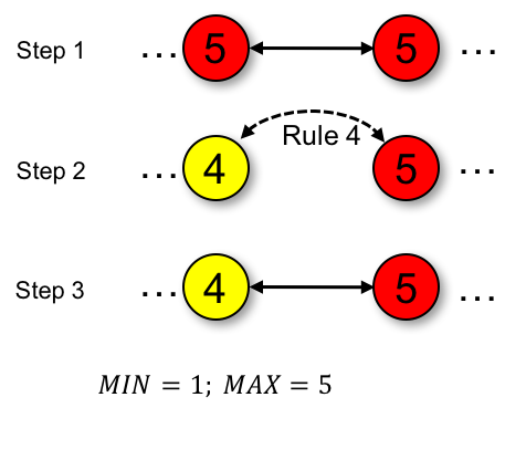 Illustration of KHOPCA rule 4.